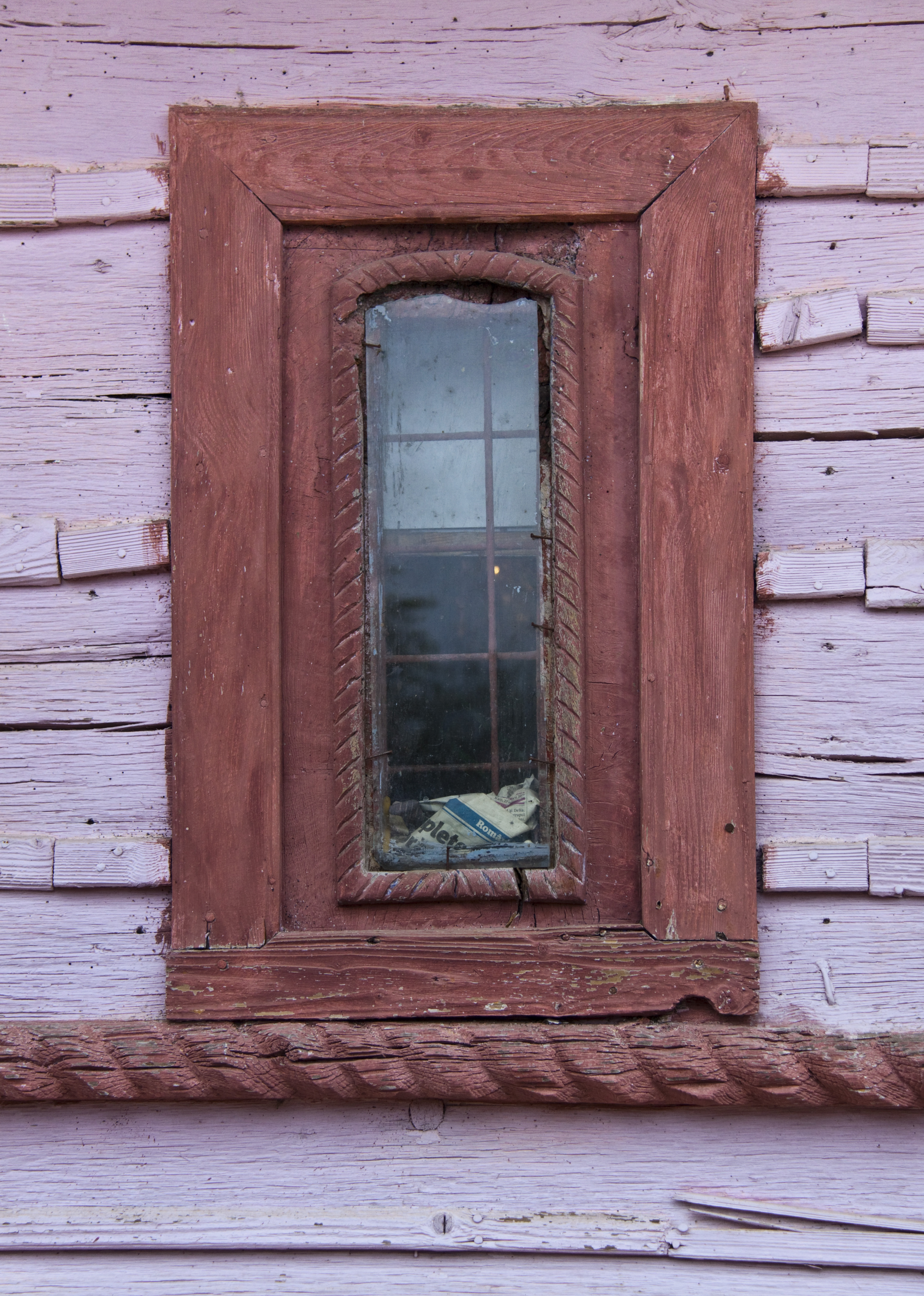 Merişani, Teleorman county, Romania: the wooden church.